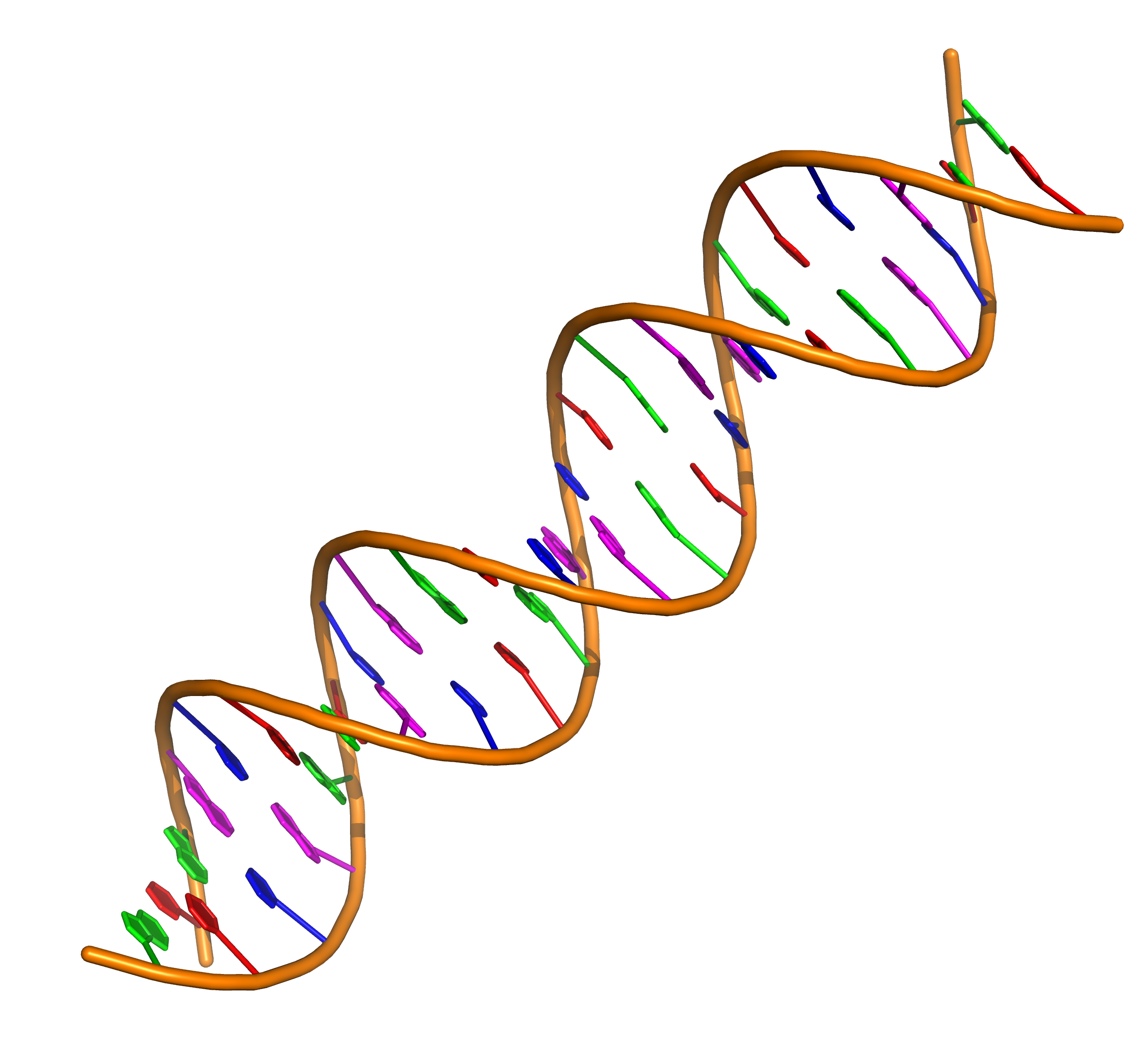 A double stranded DNA fragment 22 residues long is displayed with alternating adenine residues in green, thymidine in red, cytosine in dark blue, and guanine residues in cyan. The phosphate backbone is displayed as an orange ribbon